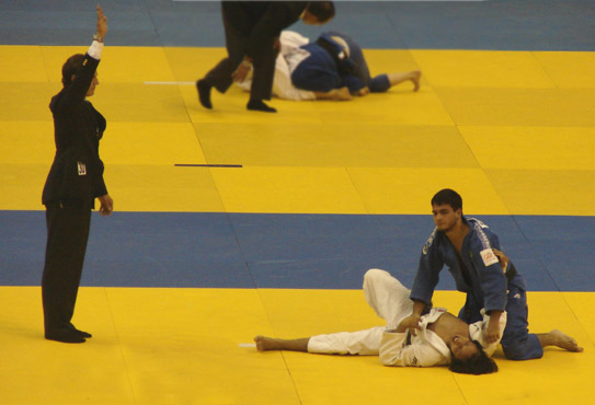 Referee issues an ippon